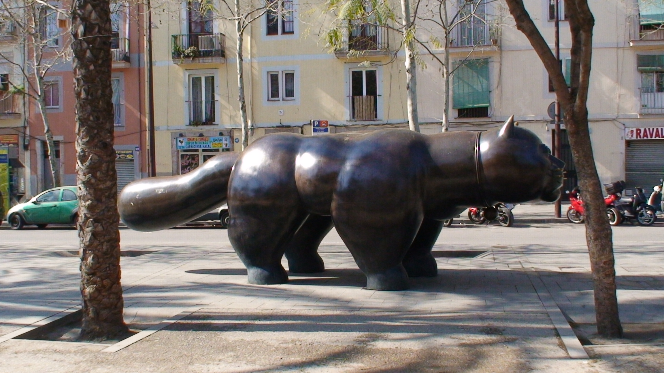 Raval cat, a Botero sculpture